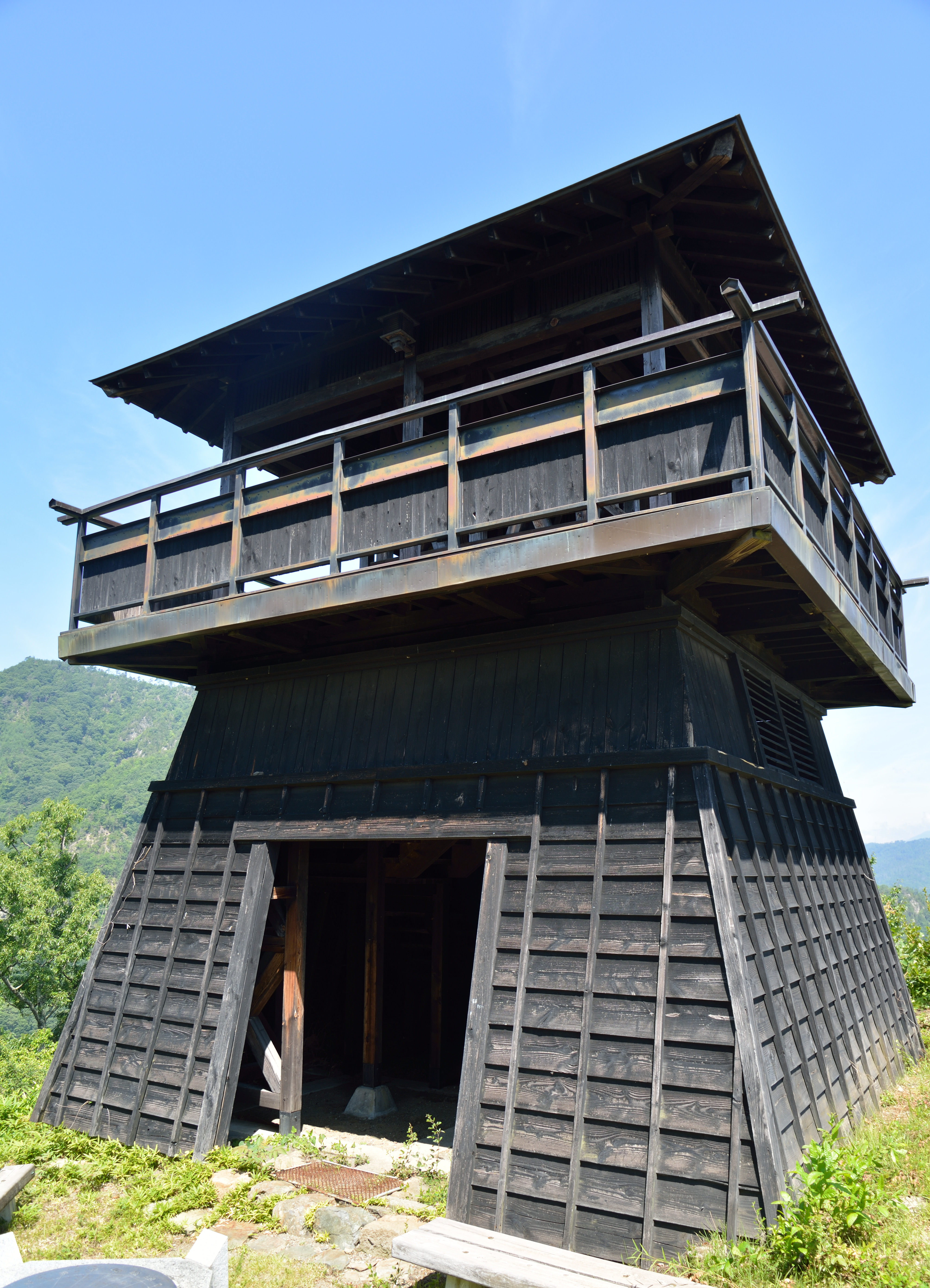 Watchtower at Maruko Castle Ruin, Ueda-city, Nagano, Japan